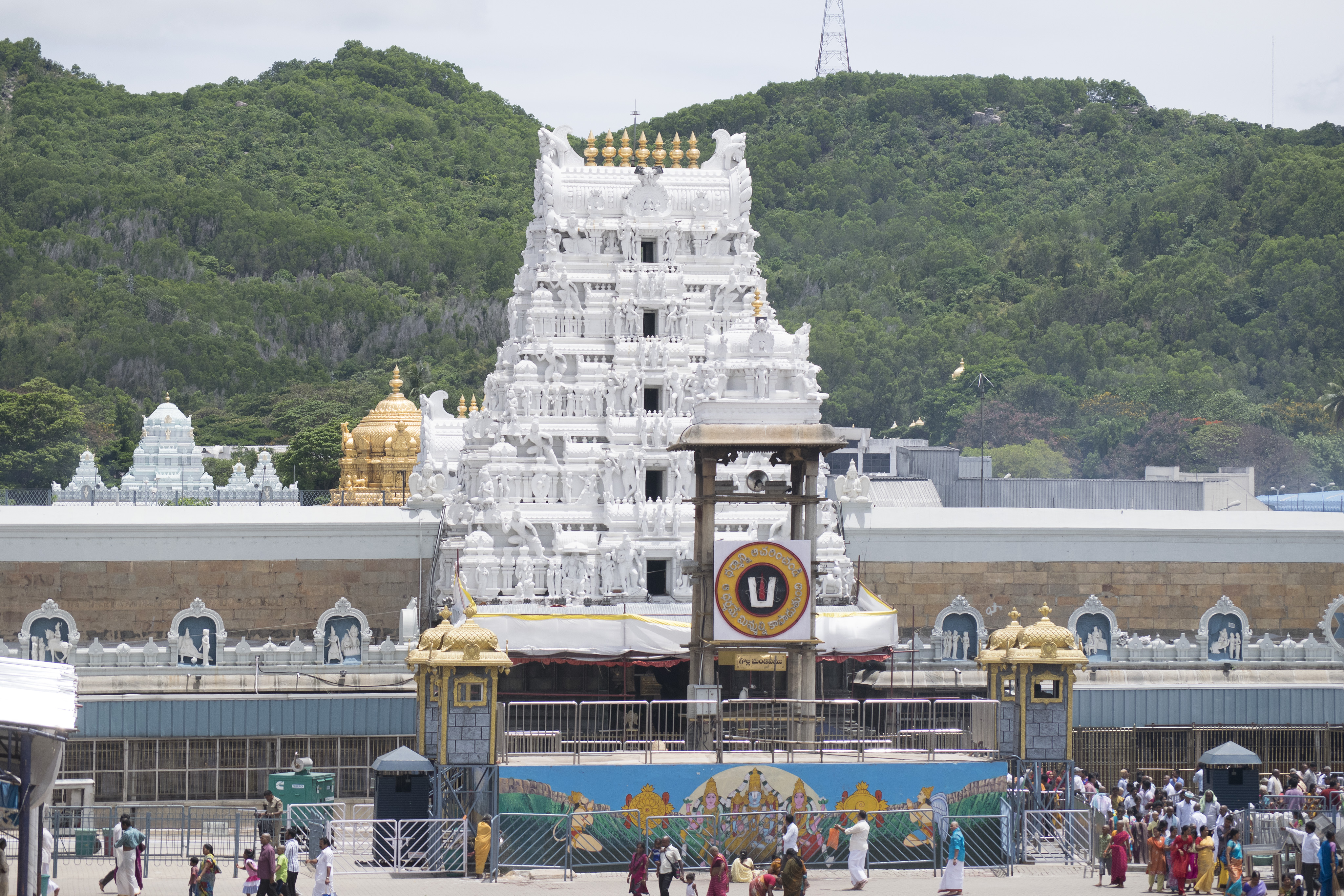 Facade of Tirumala Venkateshwar garbhagriha in the background.